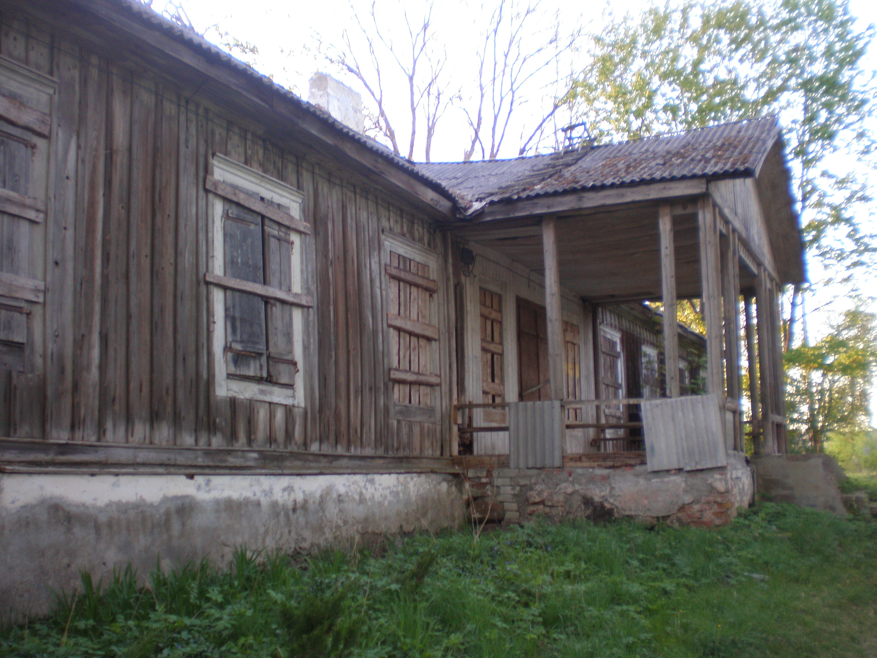 Barborlaukis manor